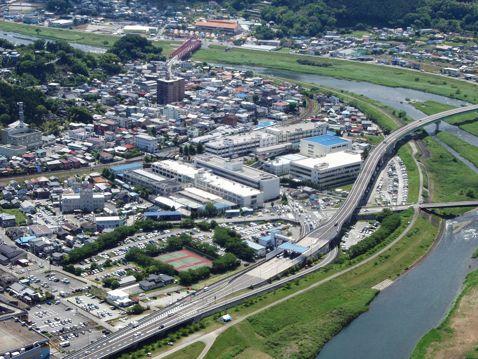 The southern part of Izunokuni. A view of the around of Ohito Station. Shot at Joyama (mountain).